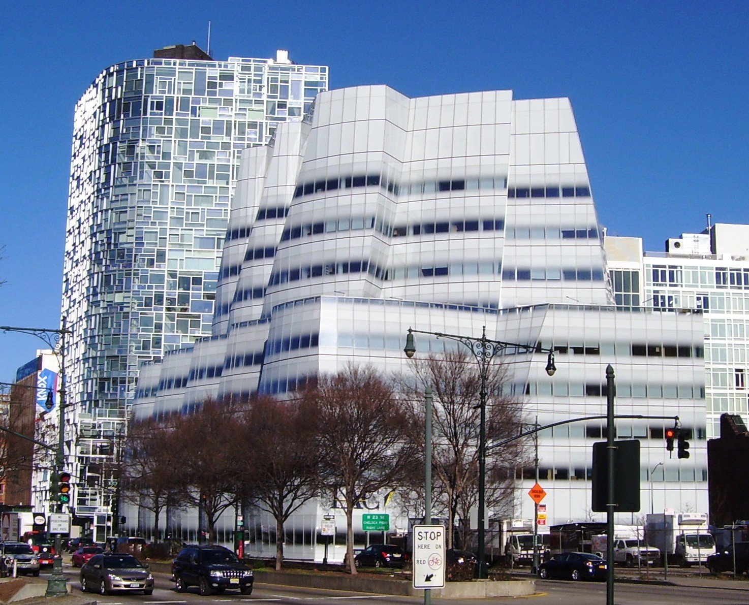 Frank Gehry's IAC Building (2007); behind it and to the left is Jean Nouvel's 100 Eleventh Avenue (2010).